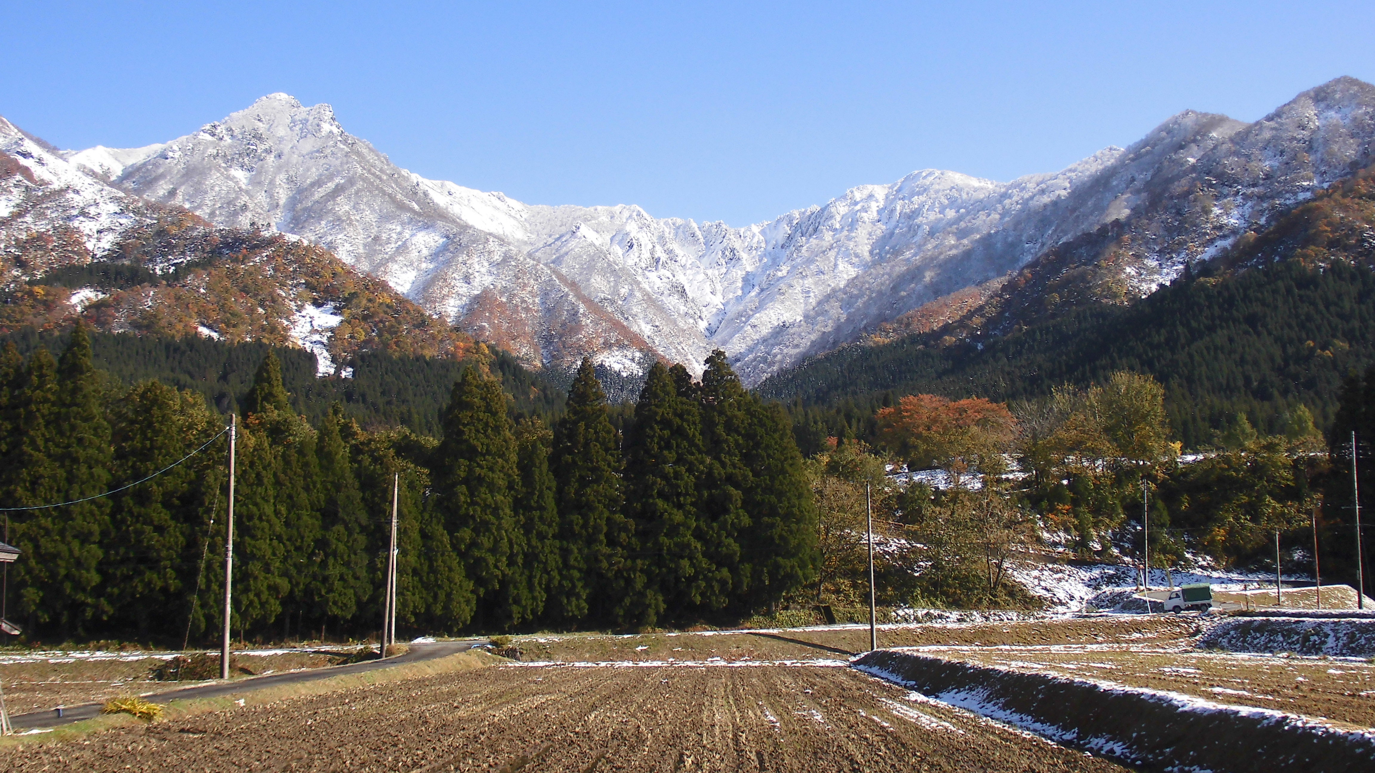 Mount Kinjo (Kinjo-san) in fresh snow